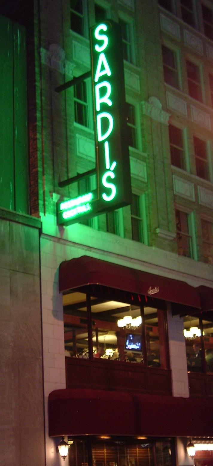 The neon sign above Sardi's restaurant on West 44th Street in Manhattan.